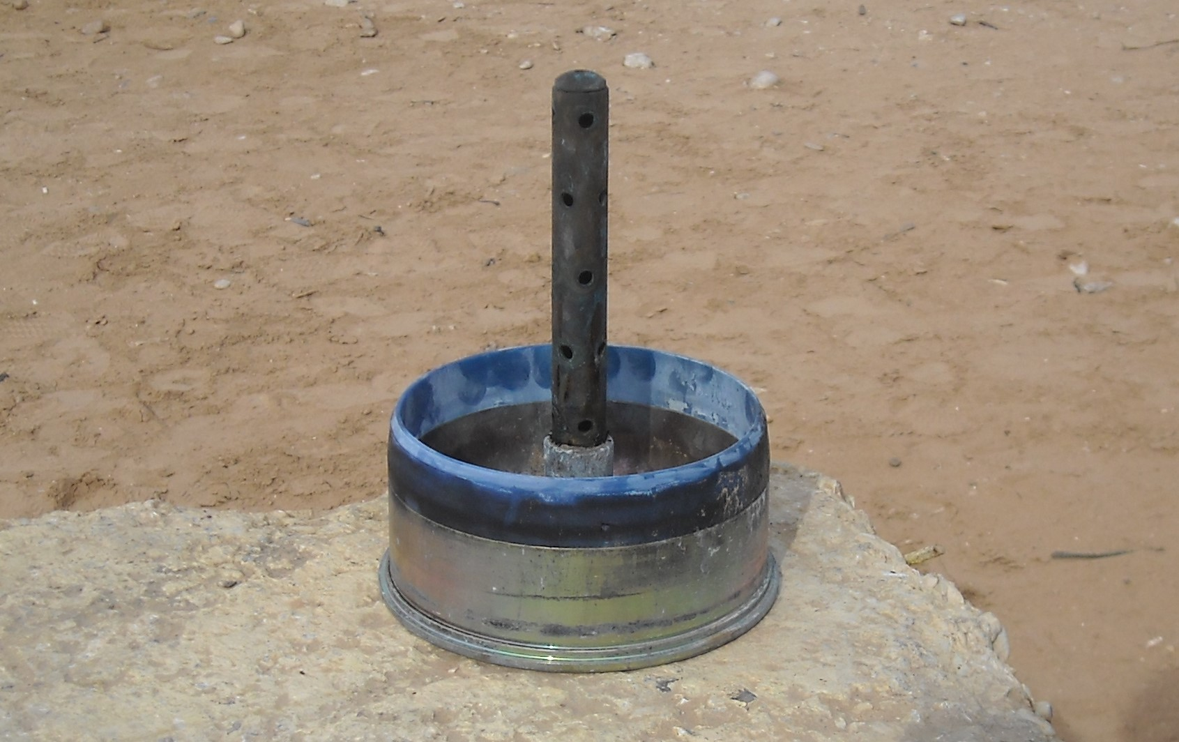 shell cartridge of 120 mm Kinetic energy penetrator